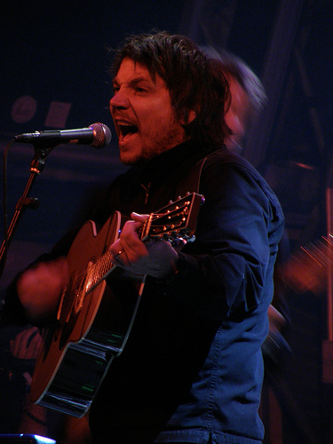 "Jeff Tweedy performing with Wilco @ Primavera Sound Festival 2007"